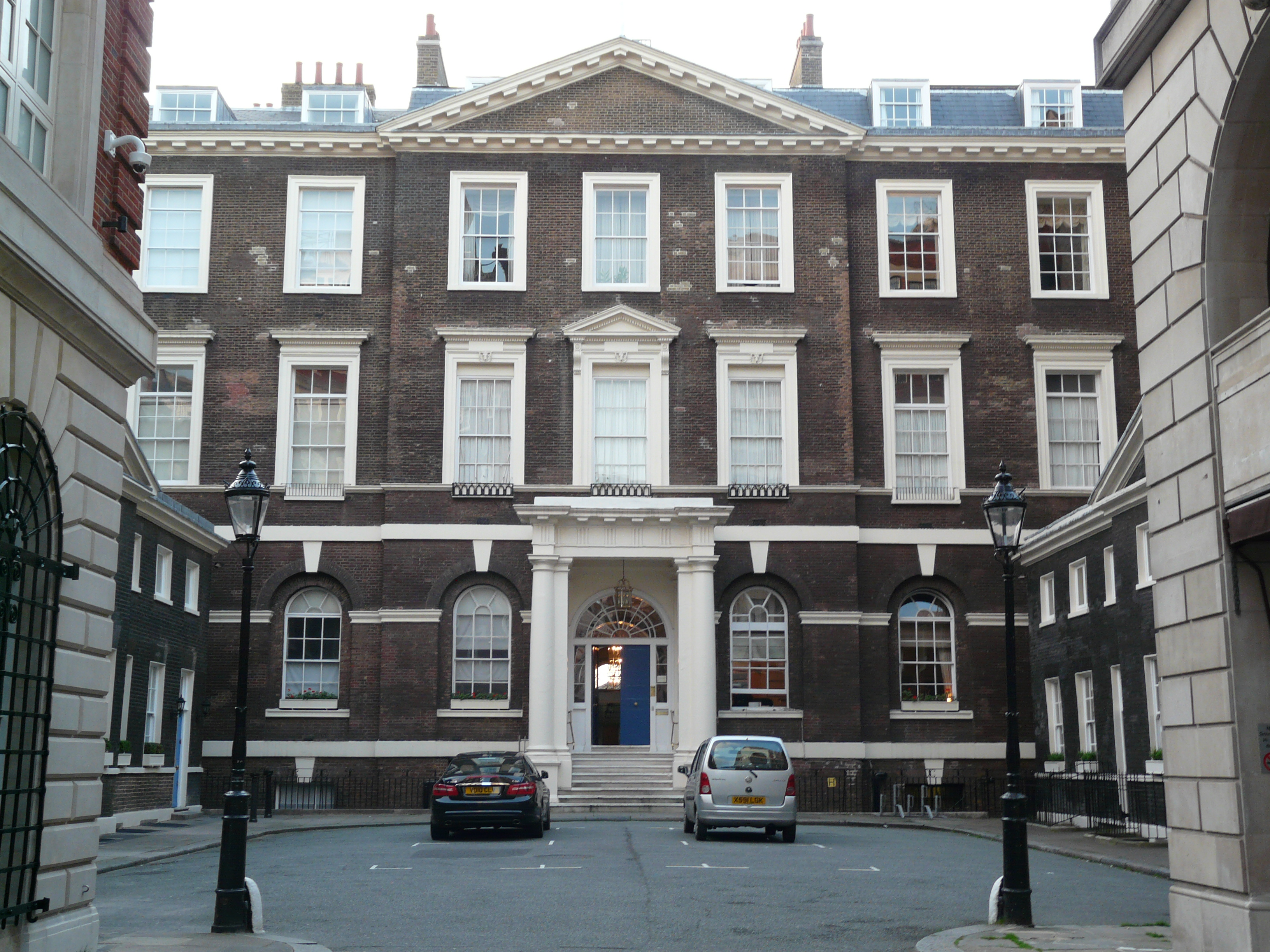 MELBOURNE HOUSE (A1 TO A15) Wikidata has entry Q17527423 with data related to this building.